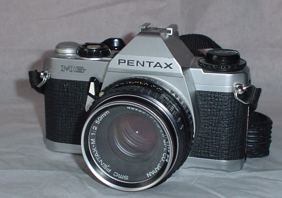 Pentax MG camera with Pentax-M 50/2